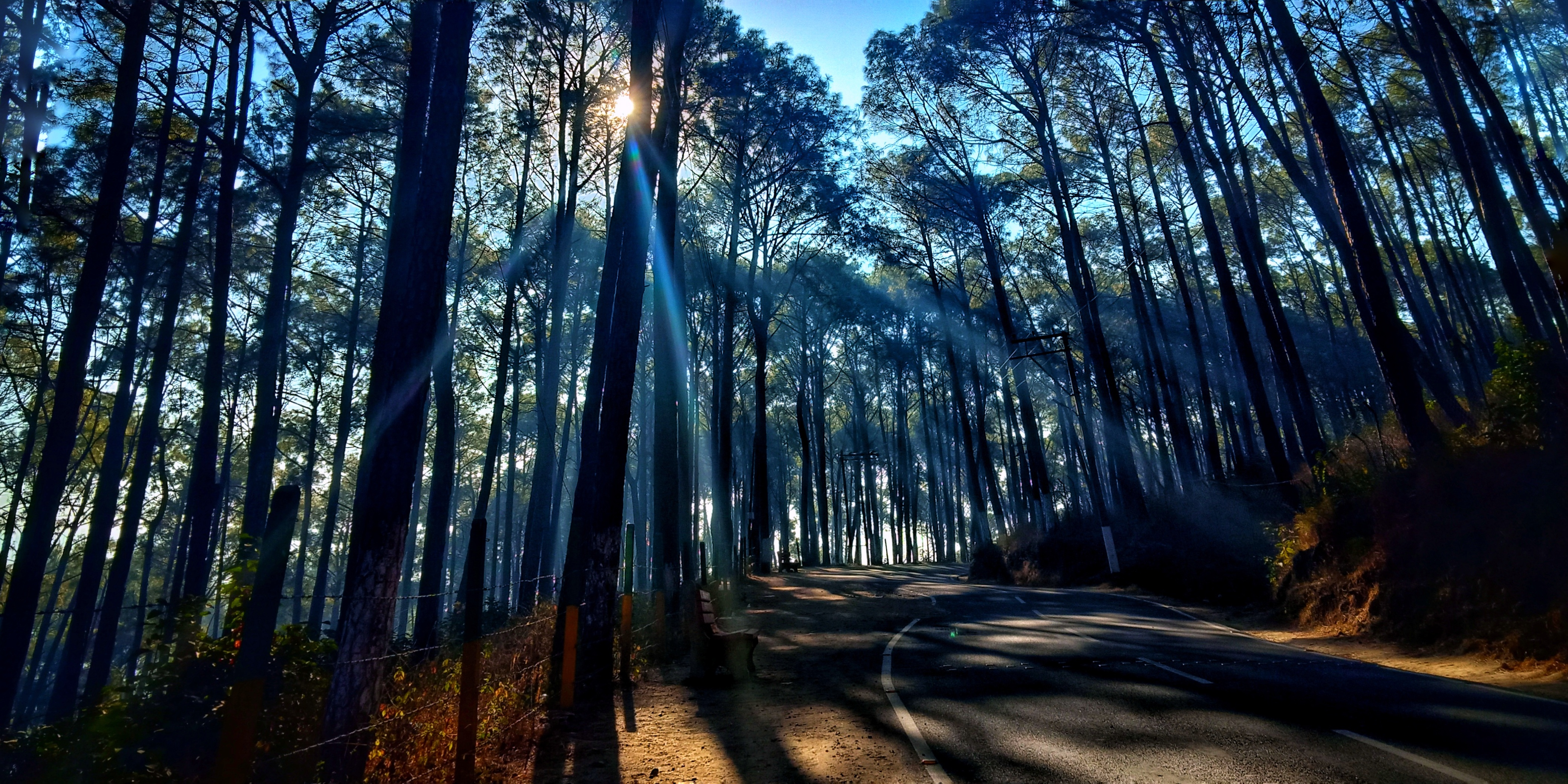 This picture is captured near the children park in Hamirpur, Himachal Pradesh